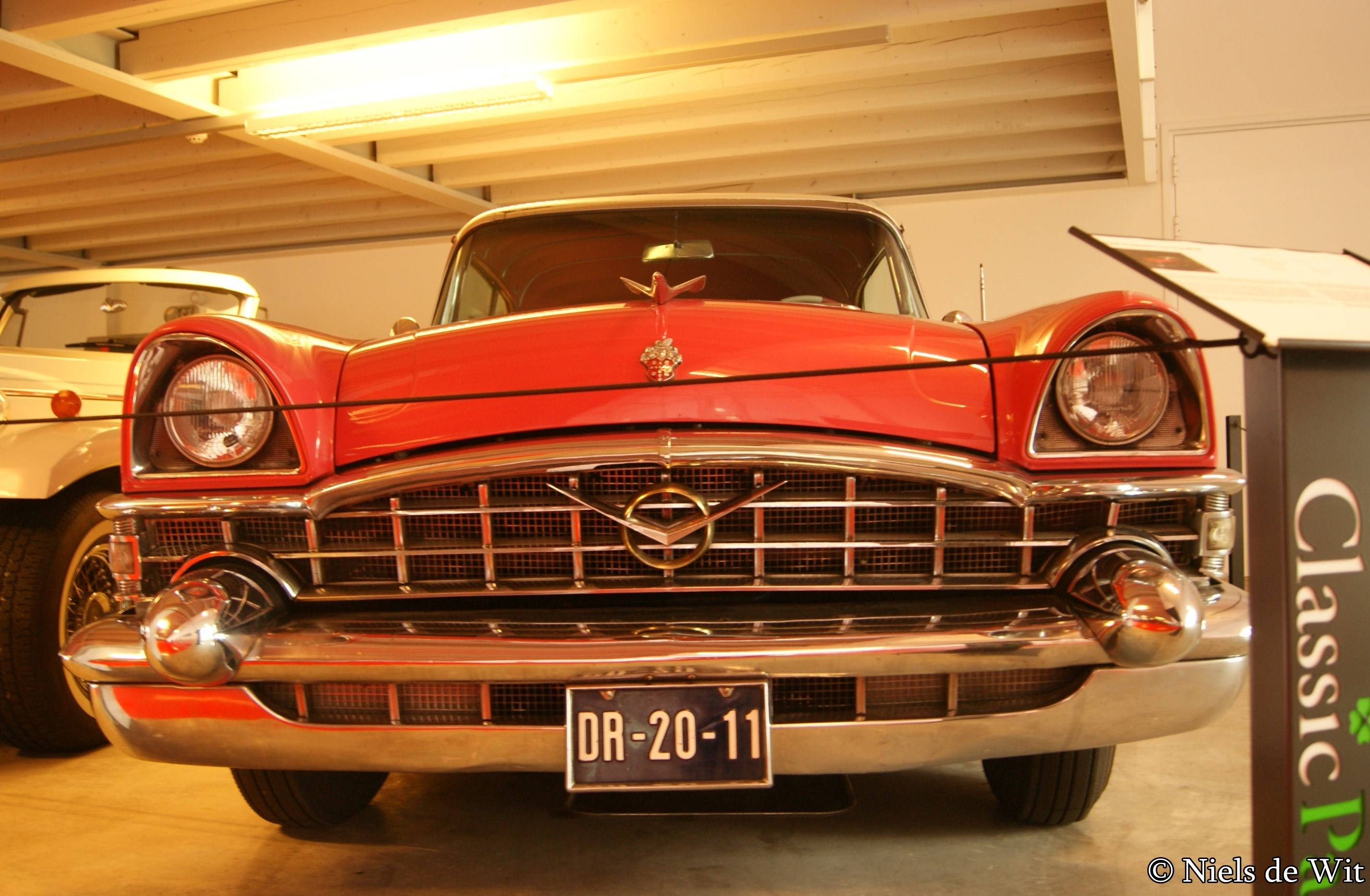 DR-20-11 Classic Park Boxtel